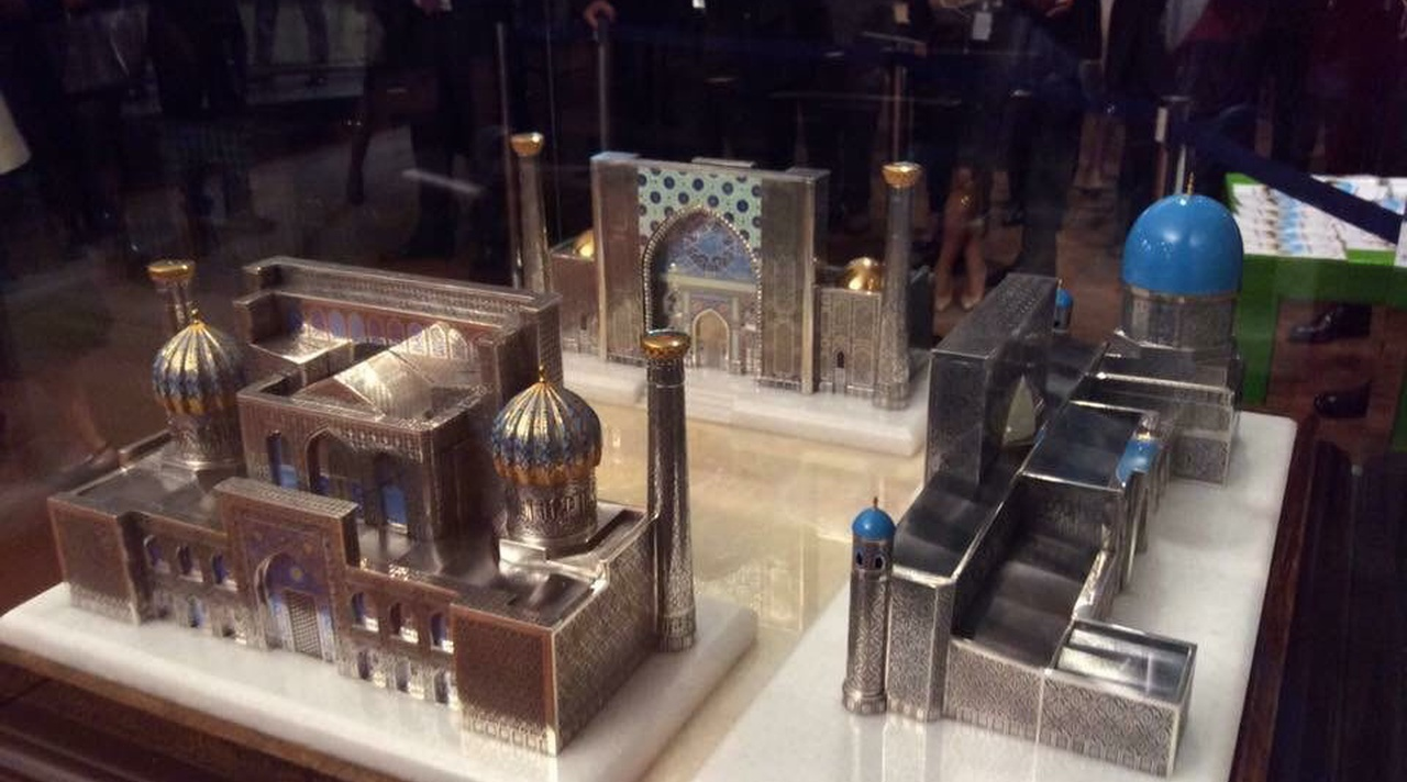 Maquette of the Registan Square, which is located in the center of Samarkand city.